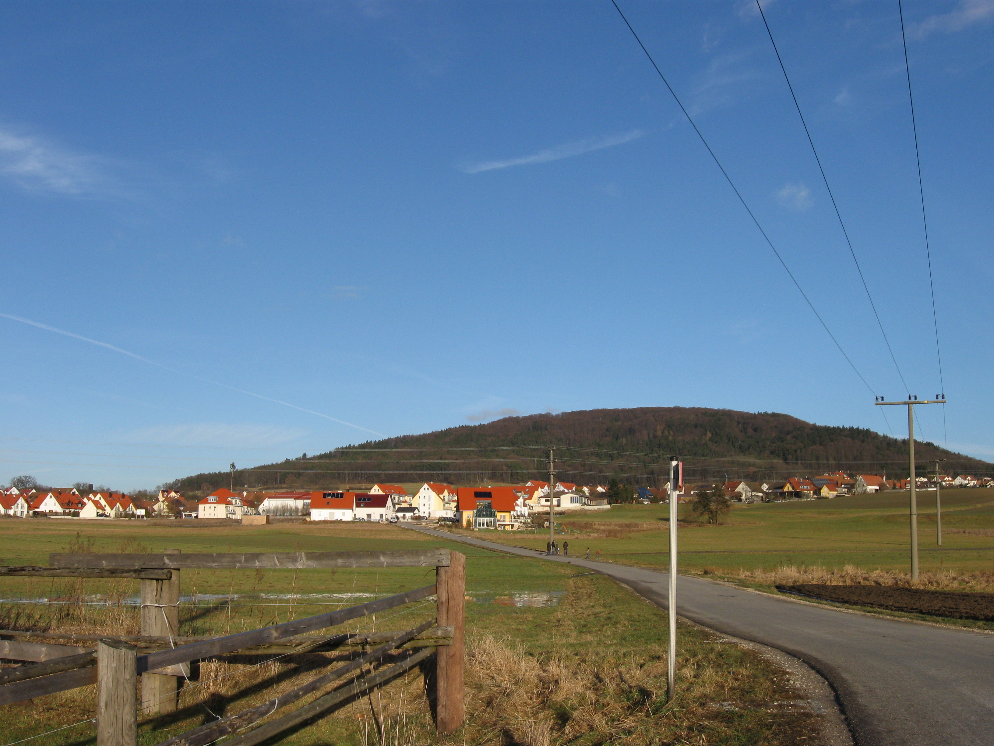 A view of Diepersdorf in the district of Nürnberger Land in Germany.